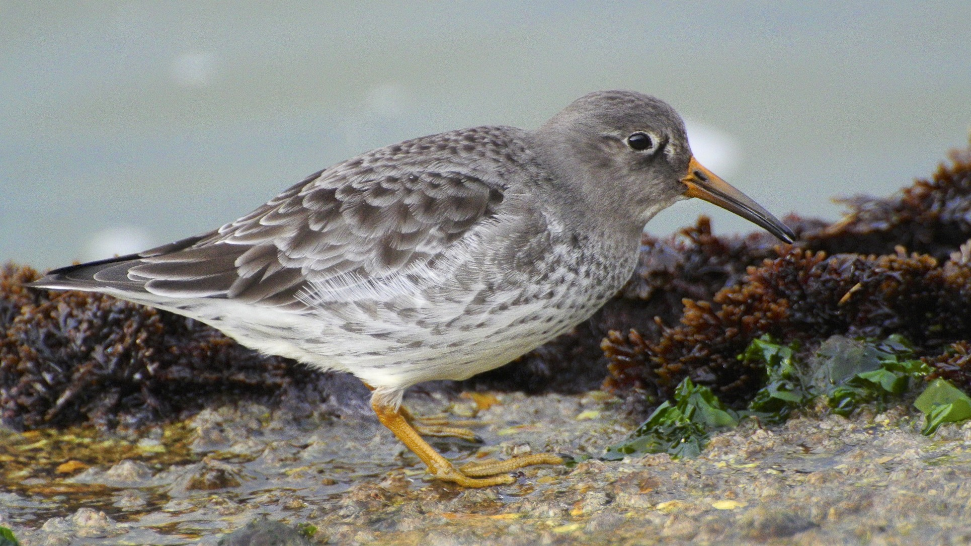 These delightful and approachable little waders were at North Haven by the Sandbanks Ferry. They scurry about feeding between the weed patches and never keep still for one moment. By the time I got there the storm clouds were coming in and the light fell away which is why some of these have a rather high ISO.